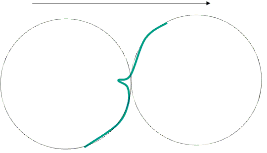 Figure skating rocker turn